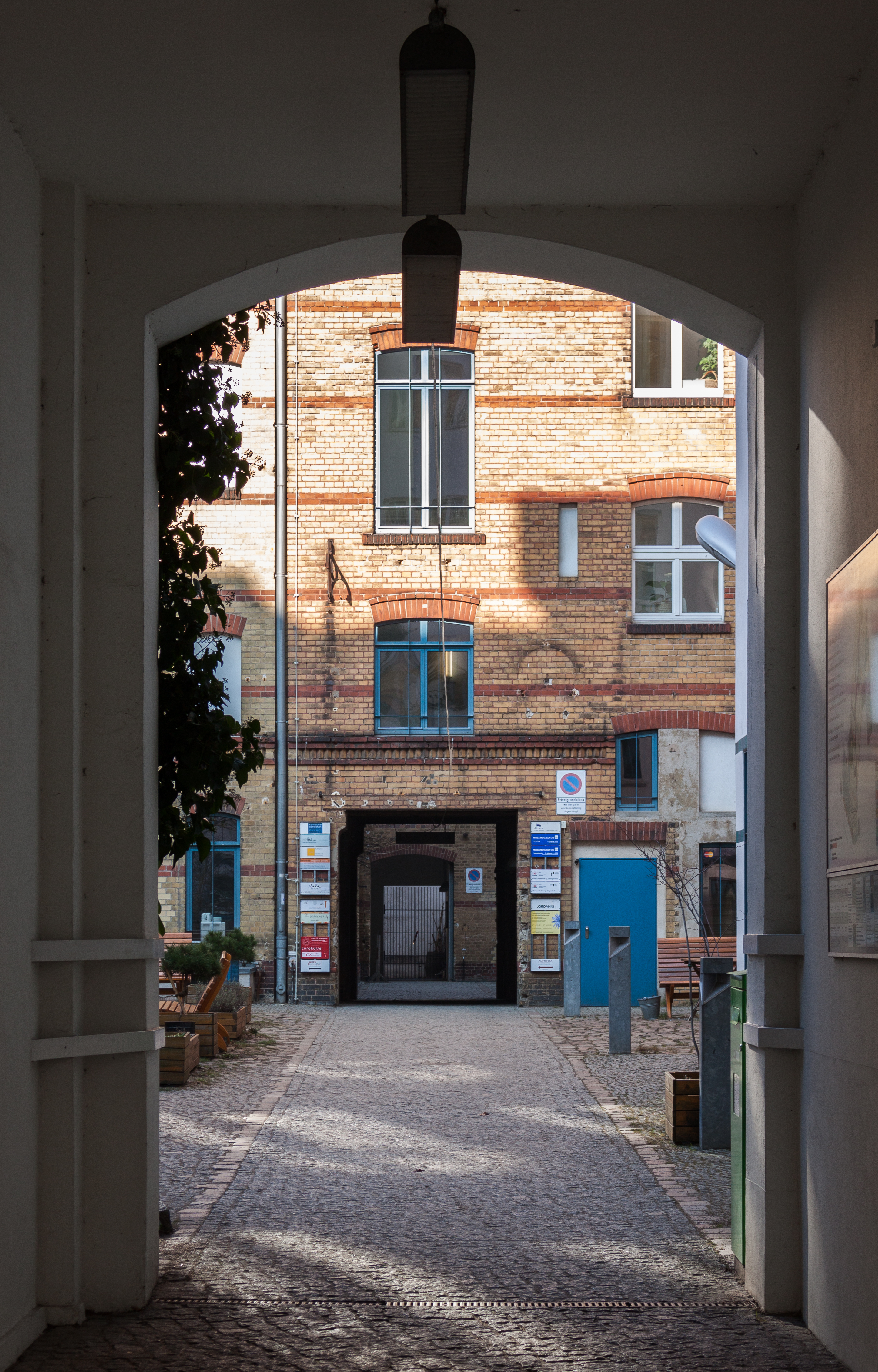 Passage to the backyards of Anklamer Straße 38 in Berlin-Mitte. There the so called Gründerinnenzentrum (founder's center) of WeiberWirtschaft eG is situated.